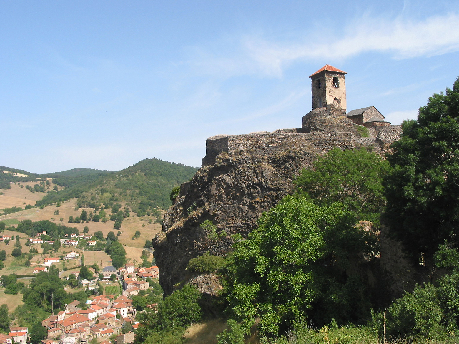 Saint-Ilpize (Haute-Loire - France), the medieval castle (XIIIth century).